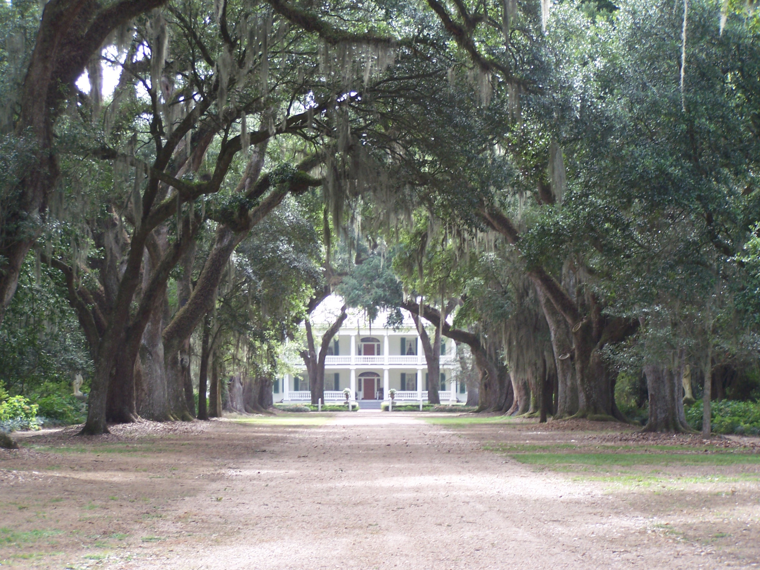 Rosedown Plantation viewed from the frnt, in 2008.